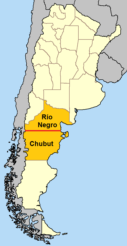 Map showing the location of the 42nd parallel south, defining the border between Argentinian provinces